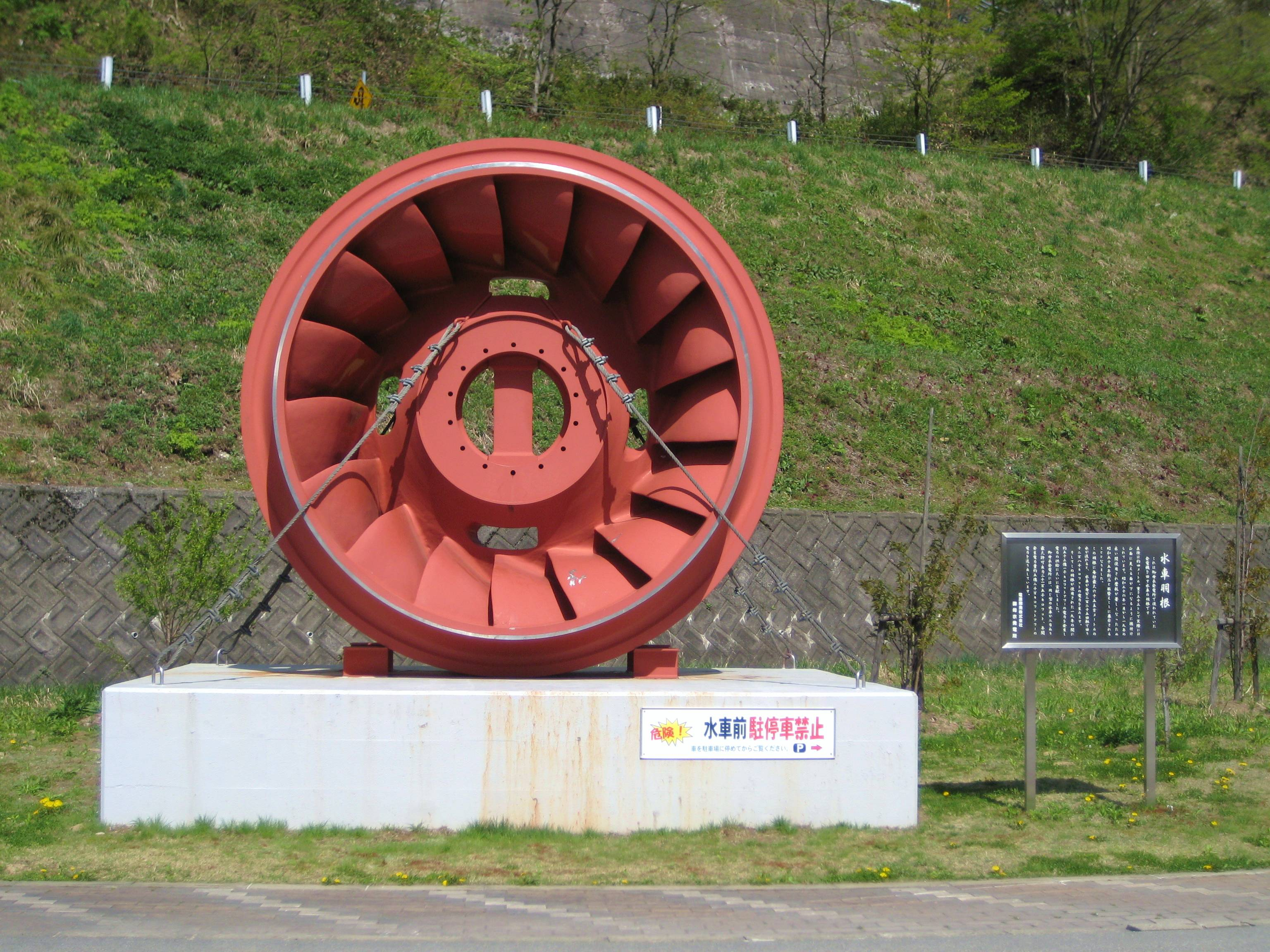 The Francis turbine runner for Miboro power station.